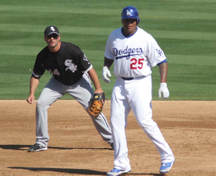 Dodgers Andruw Jones (25) during spring training action with White Sox first baseman Paul Konerko. Photo by Craig Y. Fujii 01:11, 12 May 2008 . . Craigfnp . . 720×586 (92 KB)